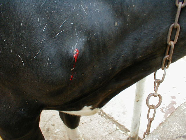 Walon: Beginning nodule of bovine verminous haemorrhagic dermatitis (probably due to Parafilaria bovicoli) Walon: on clå d' esté, å cmince (portrait saetchî pa L. Mahin).